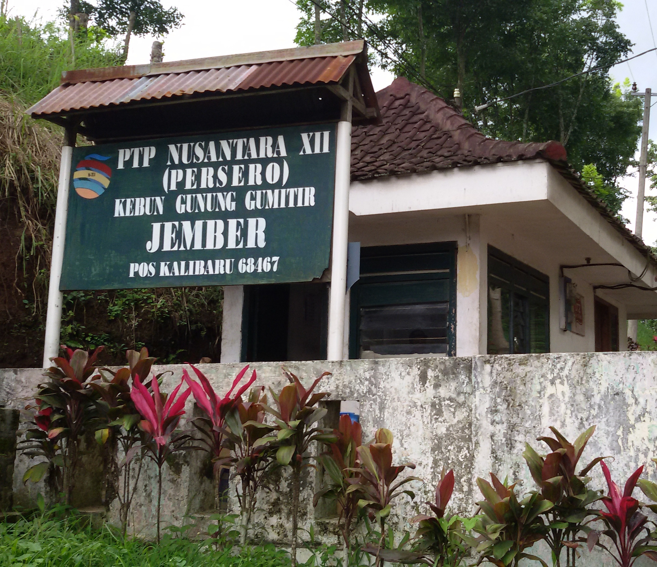 State plantation on Gumitir mountain